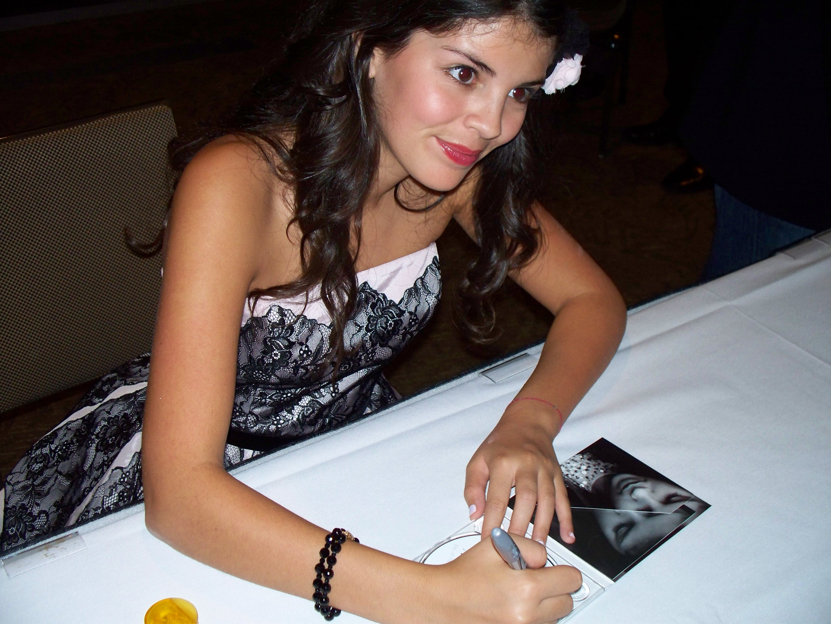 Nikki Yanofsky autographing a CD at Benaroya Hall in Seattle, Washington.